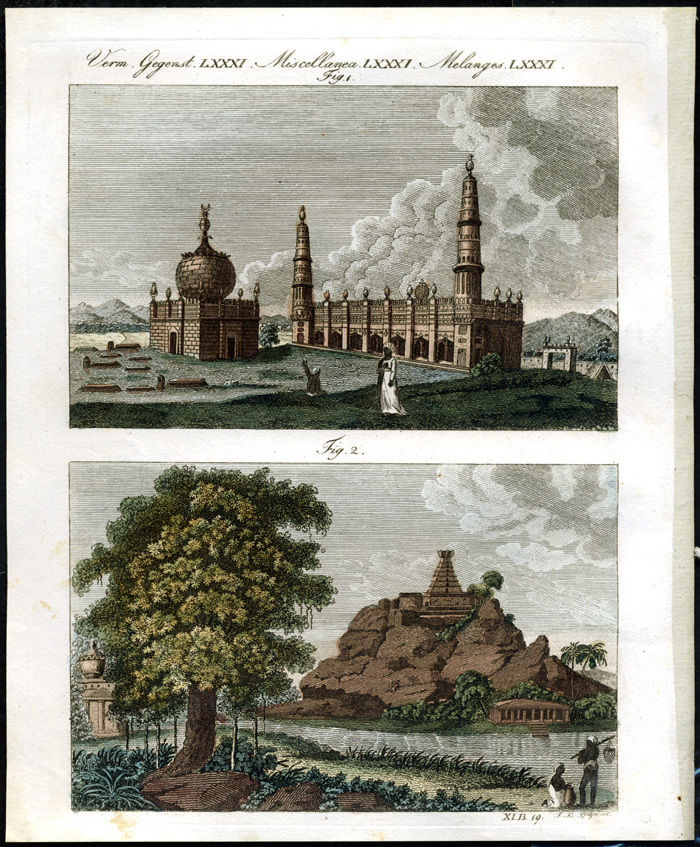 Some wonders of India by Friedrich and Carl Bertuch, 1801-15 Source: ebay, Mar. 2005 "Three handcolored copperplage engravings: "INDISCHE TRACHTEN", "INDISCHE BÜSSENDE" & "INDISCHE GAUKLER." PLATE 1: Monch, Fakir, Writer and Procession Wagons.[1. Hindu mendicant friar (pandarum); 2. Fakir; 3. Clerk or scribe; 4. Carriage loaden with idols; 5. Hackery (taxi).] PLATE 2: Three Penitents. PLATE 3: Tumblers and Snake Charmer. These are Plates #16 to 18 of Vol. 11 of the Second Edition of "Bilderbuch zum Nutzen und Vergnügen der Jugend", first authored and published by FRIEDRICH JUSTIN BERTUCH (1747-1822) and his Son CARL BERTUCH (1777-1815) in Vienna, Austria in the Years 1801 to 1815. These Prints taken from the 1820's Second Edition and identical to the First Edition Prints, except for the "1825" Watermarks in the Papers." 1. Pagodas of Talicut, Mysore; 2. Religious feast at Ossur, Mysore; from F. J. Bertuch, Porte-feuille des Enfans, Melange interessant d'Animau, Plantes, Fleurs, Fruits, Mineraux, Costumes (Weimar: Bureau d'Industrie, 1792 ff.)* Faqirs doing austerities* "Benares and its Pagodas"* "Indian Mosques and Pagodas: 1) Mosque of Arkot; 2) Pagoda of Wira Mally" (1792)* "Cuttub-Minar at Delhi & Palace of the King of Delhi"* "A tiger hunt in India," published by Carl Bertuch, Vienna, 1799; a copperplate engraving with original hand coloring* A hunting scene* A view of the Himalayas* Fish from India (1790)* Village with pagodas, palms, and pool* Attire of Indians, Siberians, Turks, Arabs* Source: ebay, July 2006 and onward EPSON scanner Image